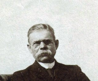 Valentin Wolfenstein in Cuba close-up